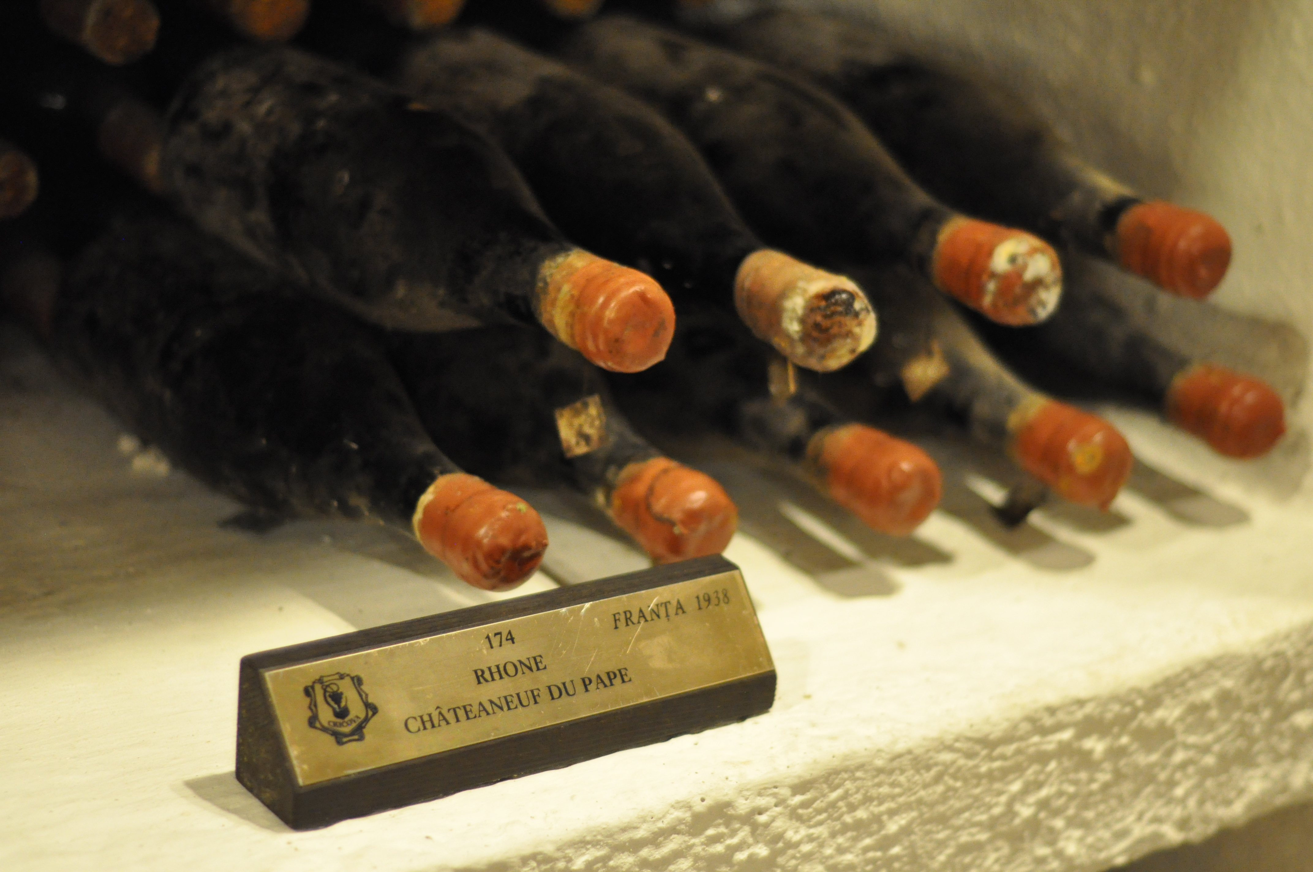 Rhone, 1938. From Cricova winery, Moldova 2010